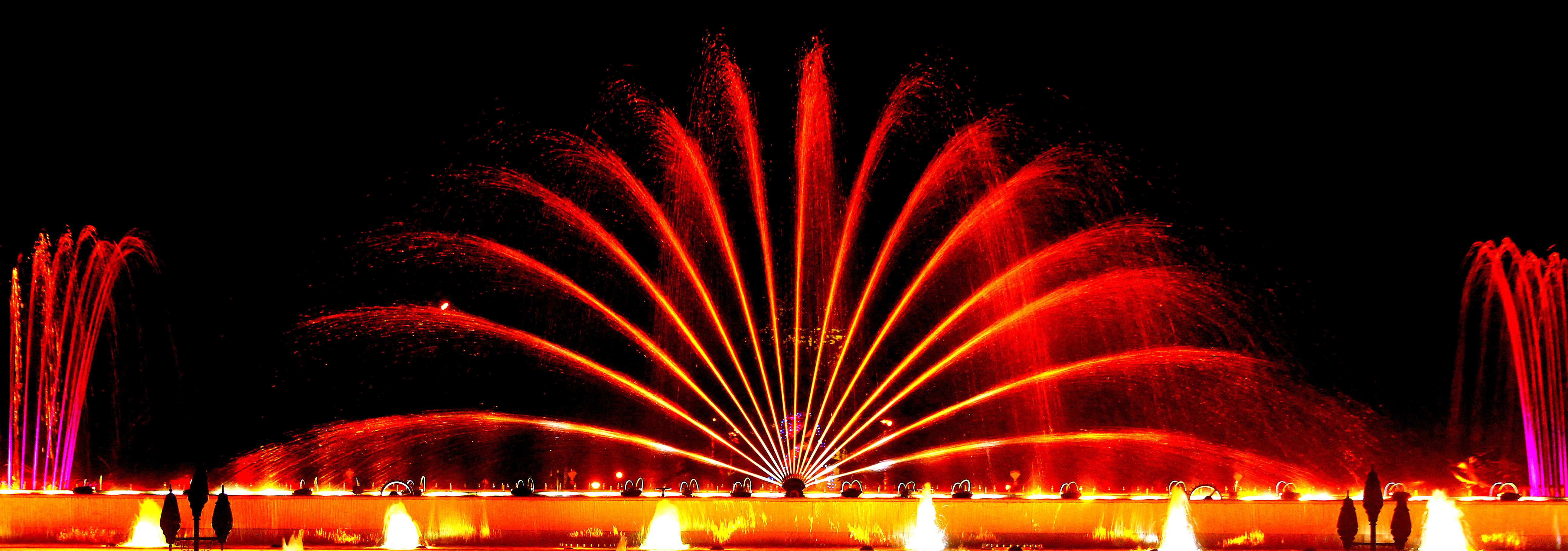 gbhgfg rfg rg